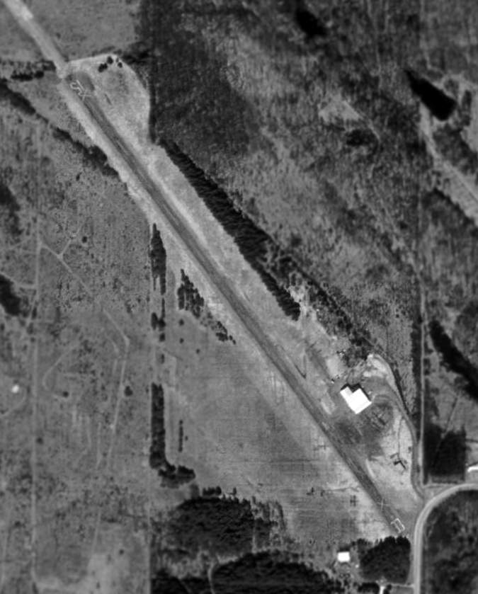 Satellite image of Syracuse Suburban Airport (6NK) serving Syracuse, New York, United States